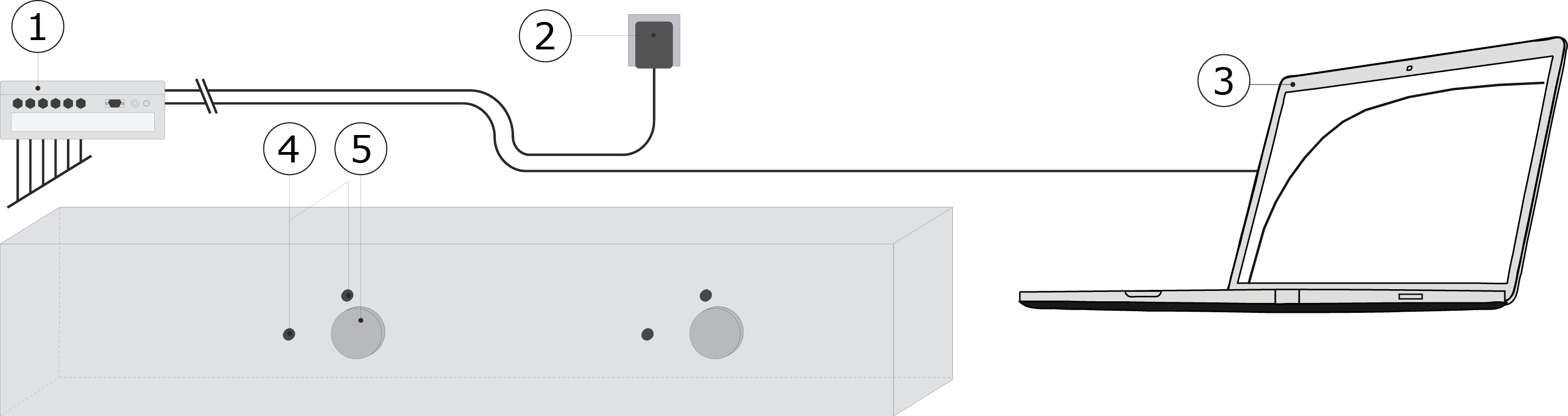 Thermal resistance measurement system (Hukseflux TRSYS01) schematic